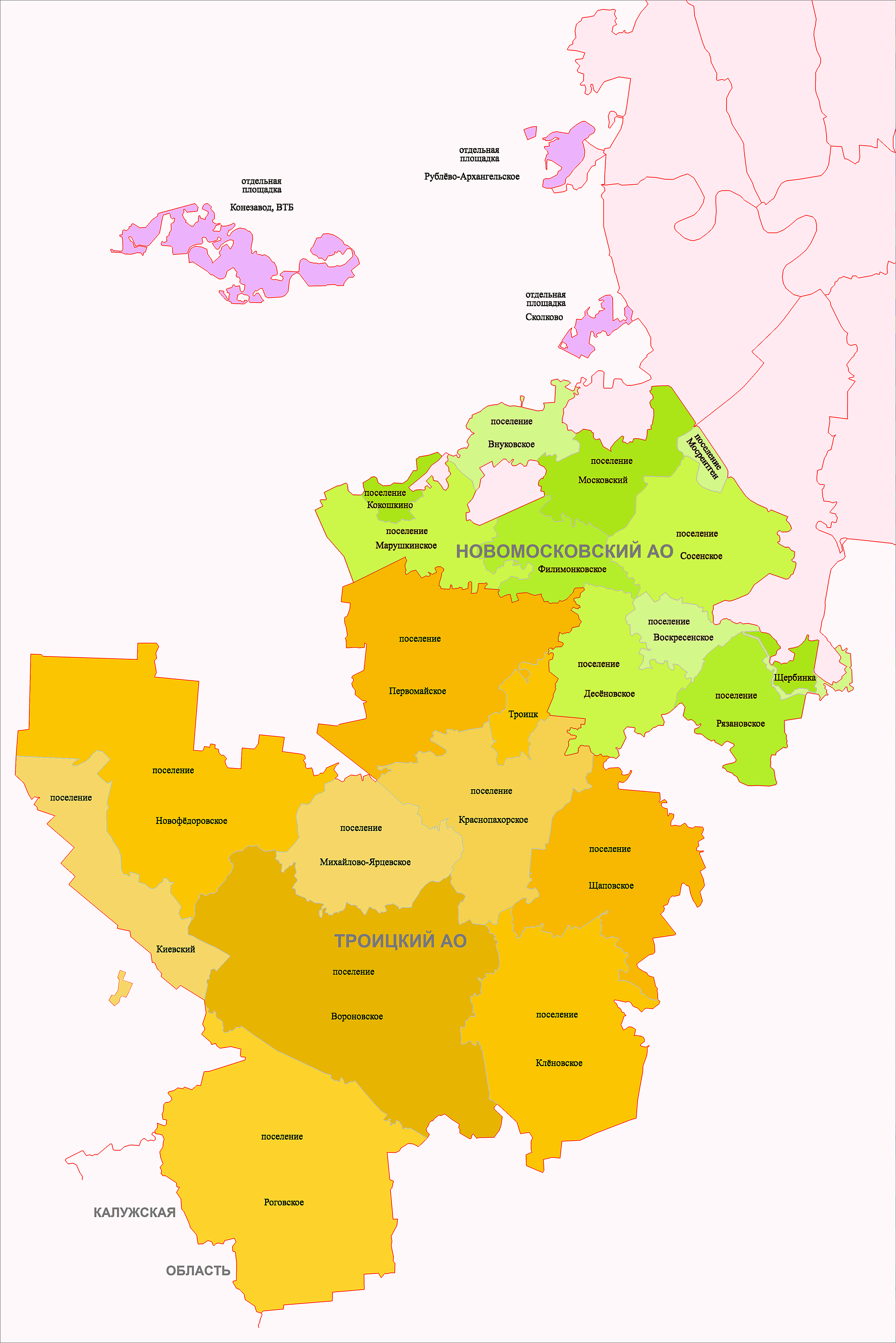 Moscow July 2012 new territories divisions